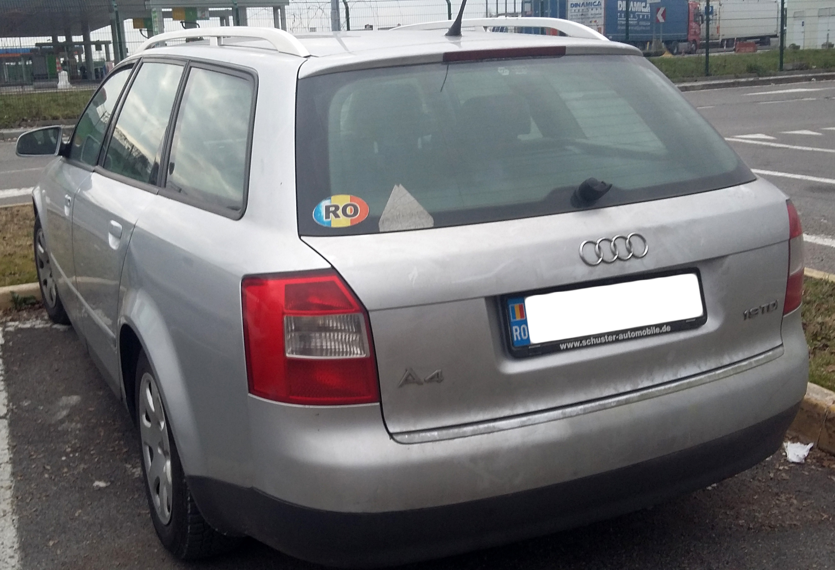 2001-2004 Audi A4 B6 Avant, rear